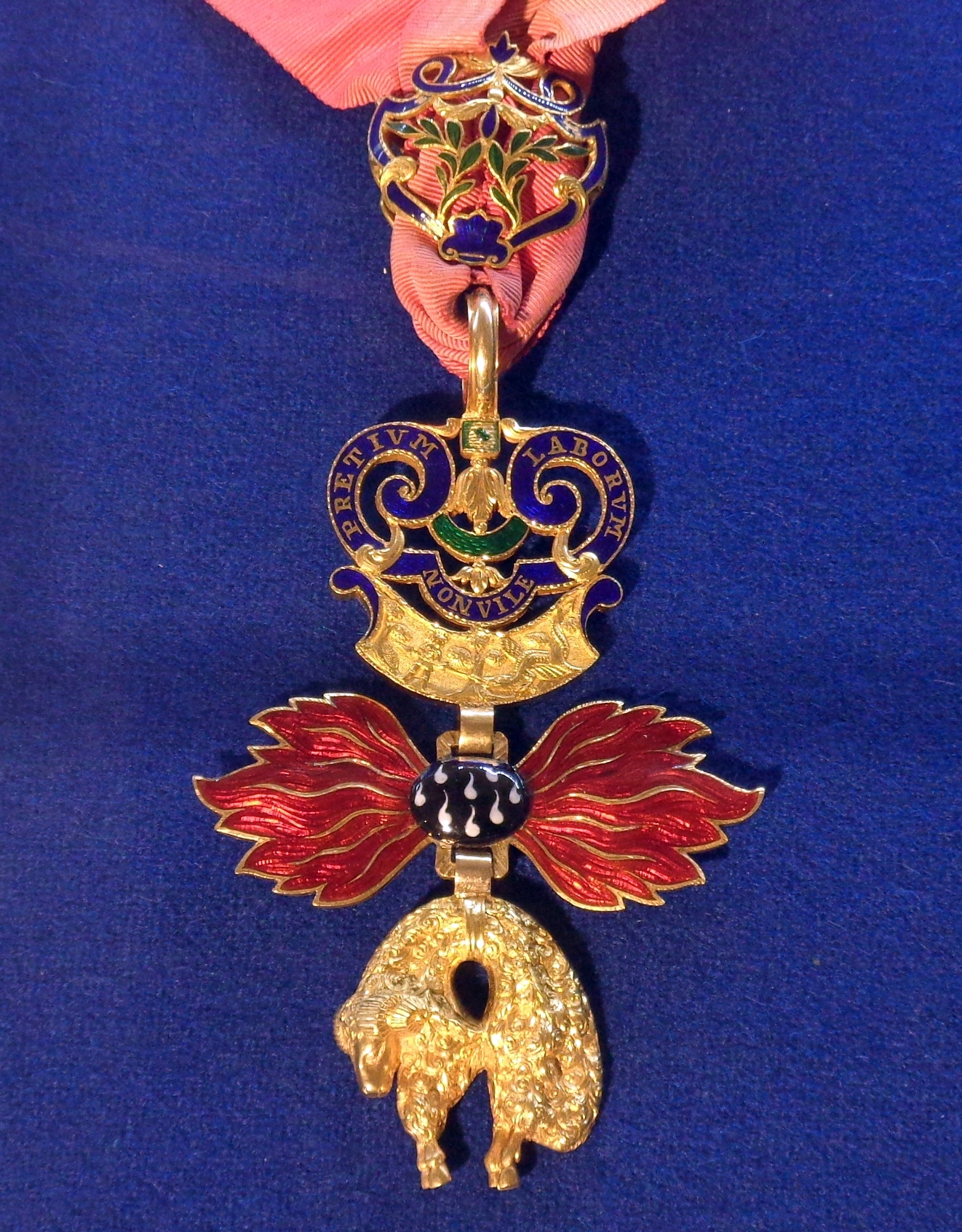 Order of the Golden Fleece, badge, c.1830. Austria. The exhibition of the Tallinn Museum of Orders of Knighthood, Estonia.